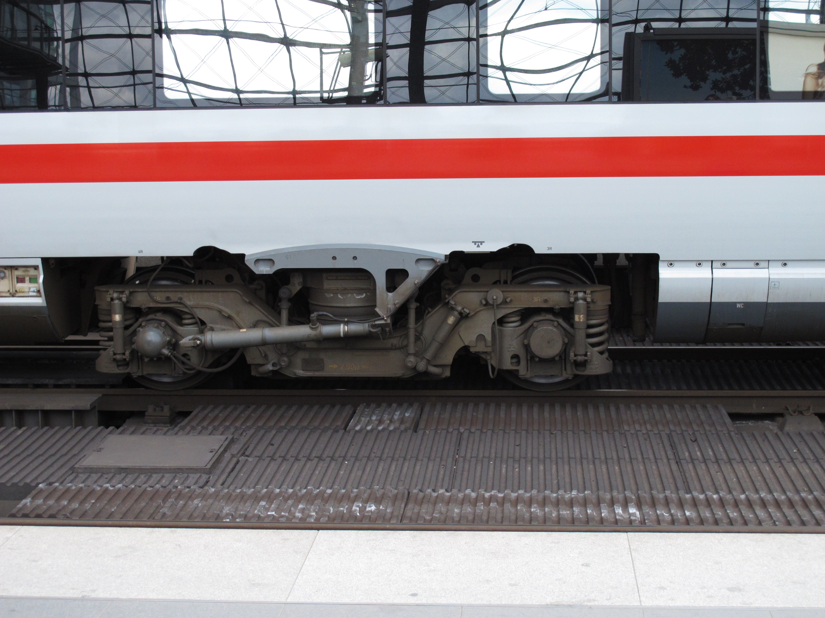 Berlin Hauptbahnhof; modified ICE train owned by DSB